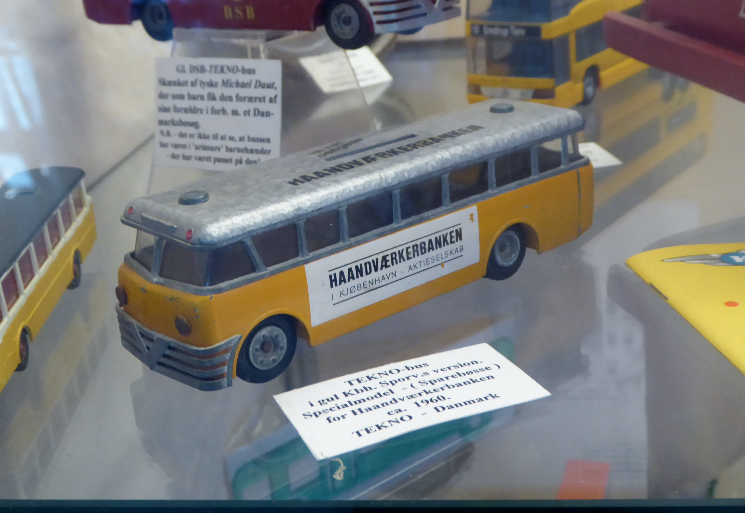 Special made toy bus from Tekno as a money box resembling a bus from Copenhagen at Sporvejsmuseet Skjoldenæsholm in Denmark. It was made for Haandværkerbanken i Kjøbenhavn.